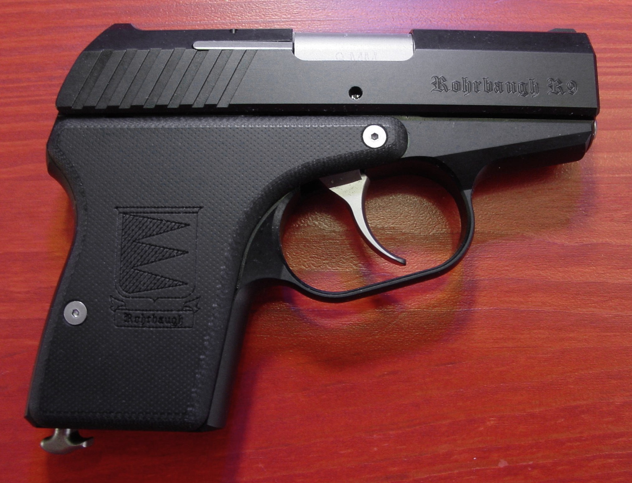 Picture of Rohrbaugh Firearms model R9s Stealth 9mm handgun